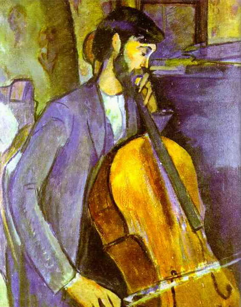 Cello Player